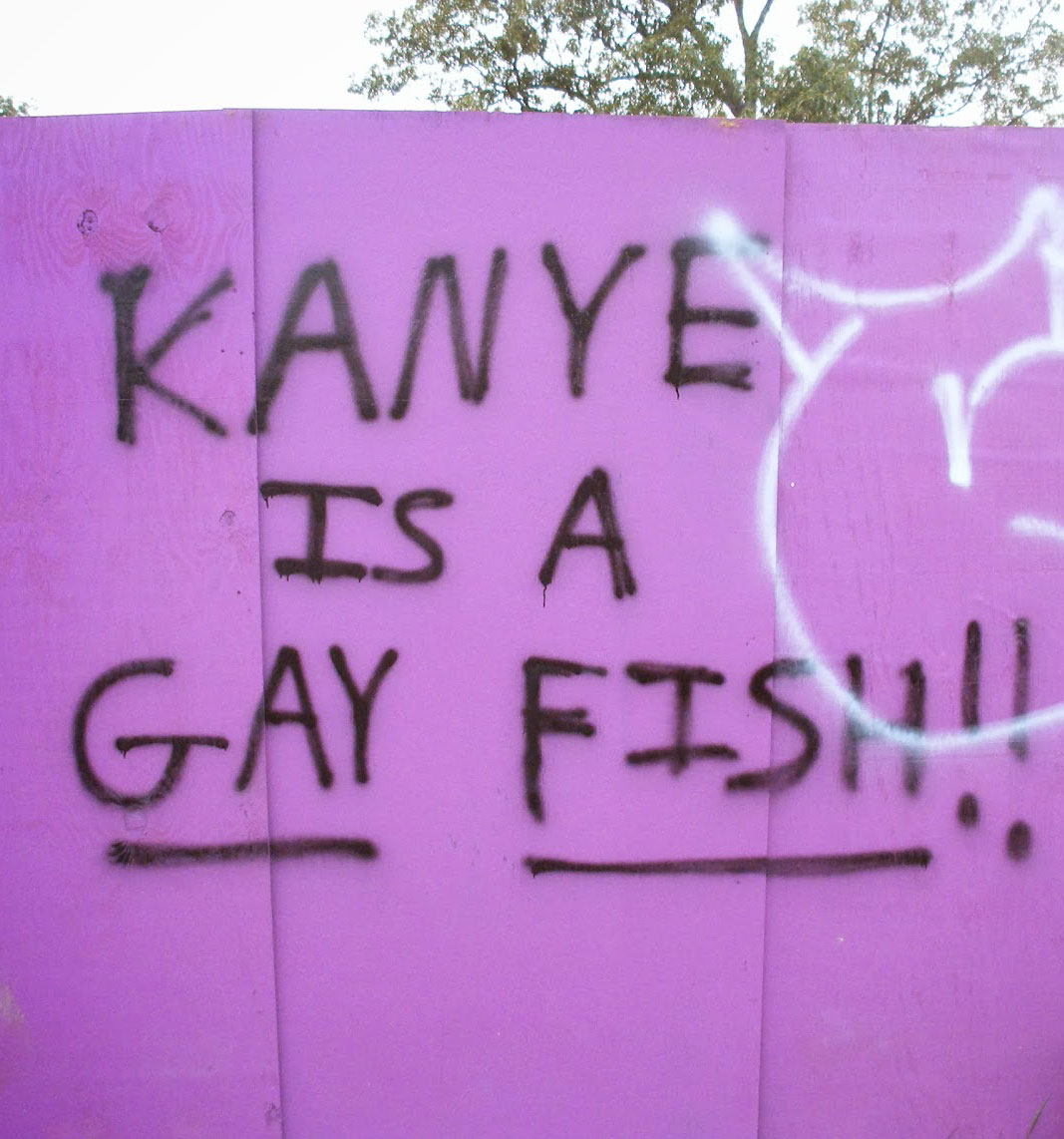 Graffiti deriding rapper Kanye West at Bonnaroo, referencing a popular South Park episode satirizing the artist. Image is cropped.